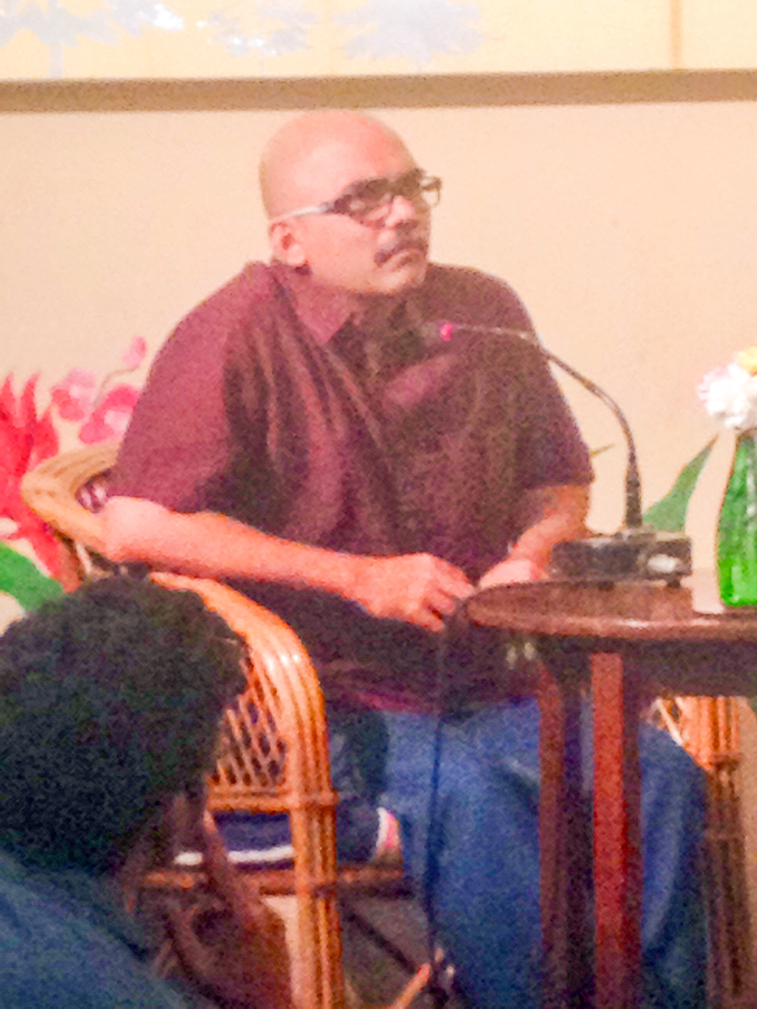 Baradwaj Rangan making a public speech in September 2014.